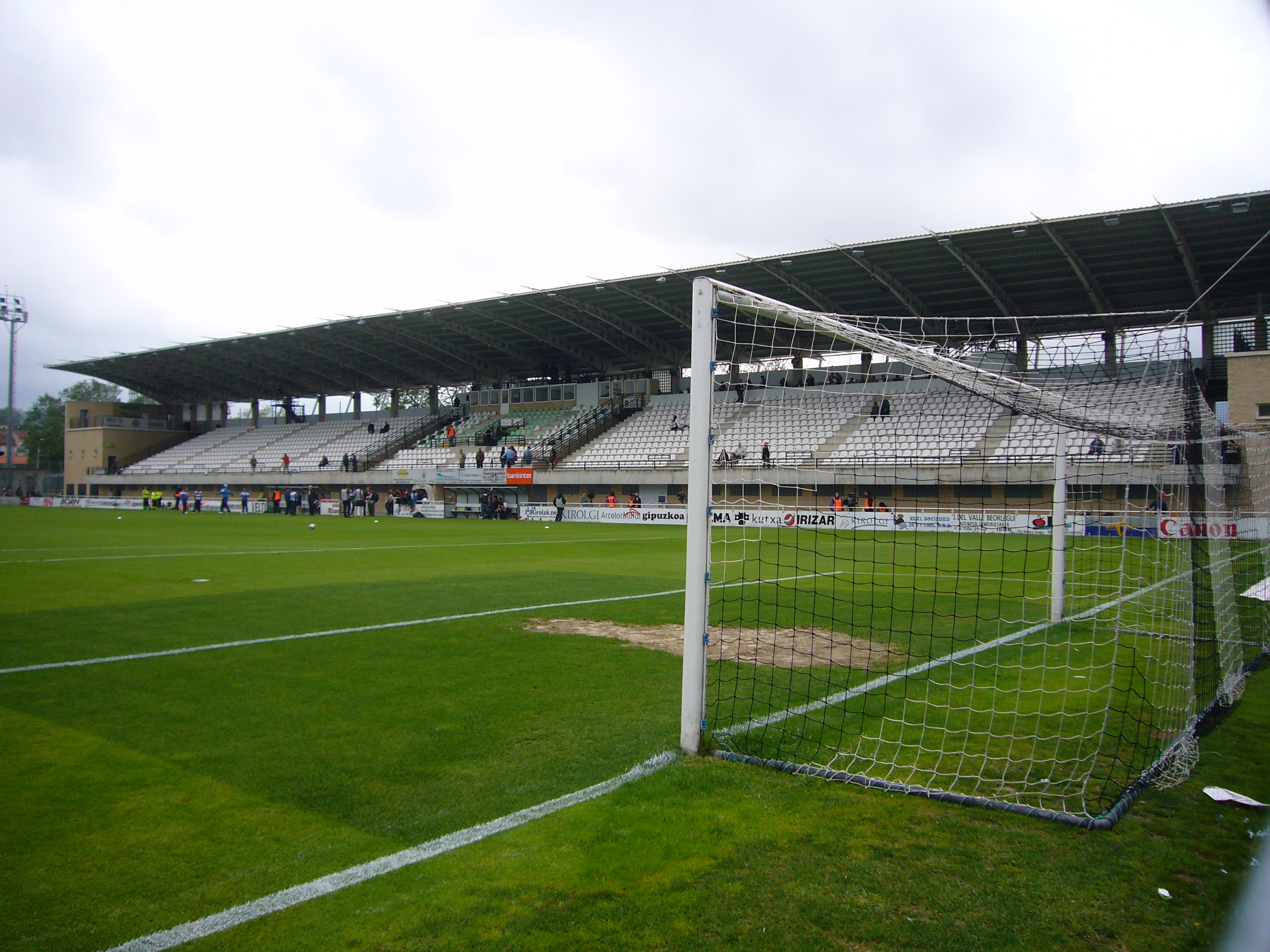 Tribune Tier Gal Stadium in Irun.